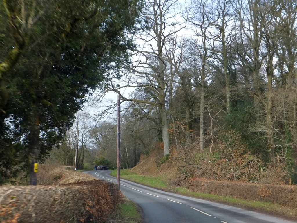 In Bury Wood